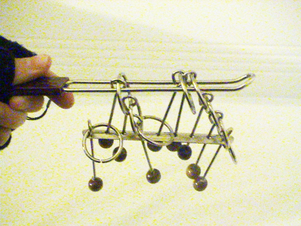 brightened original dark picture